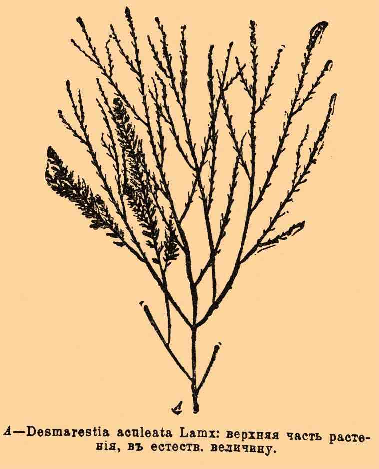 Desmerestia aculeata. From the Brockhaus and Efron Encyclopedic Dictionary (1890-1907)